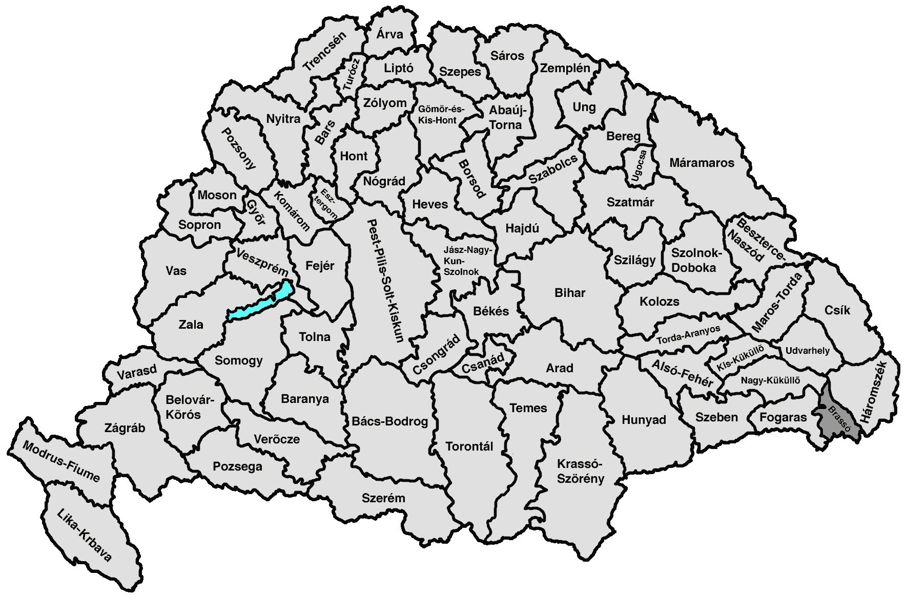 own edit of Image:Zala.png